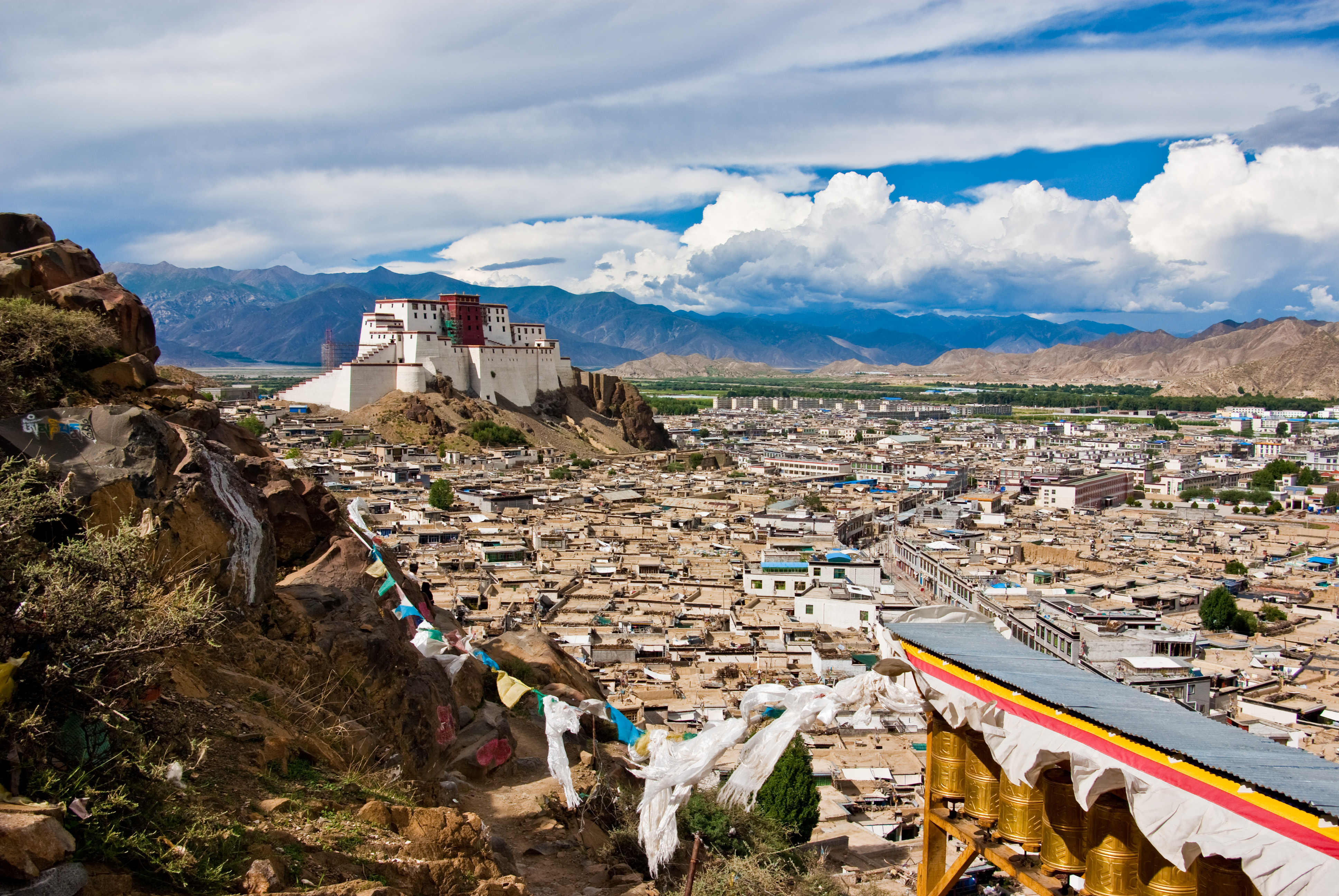 Shigatse Dzong